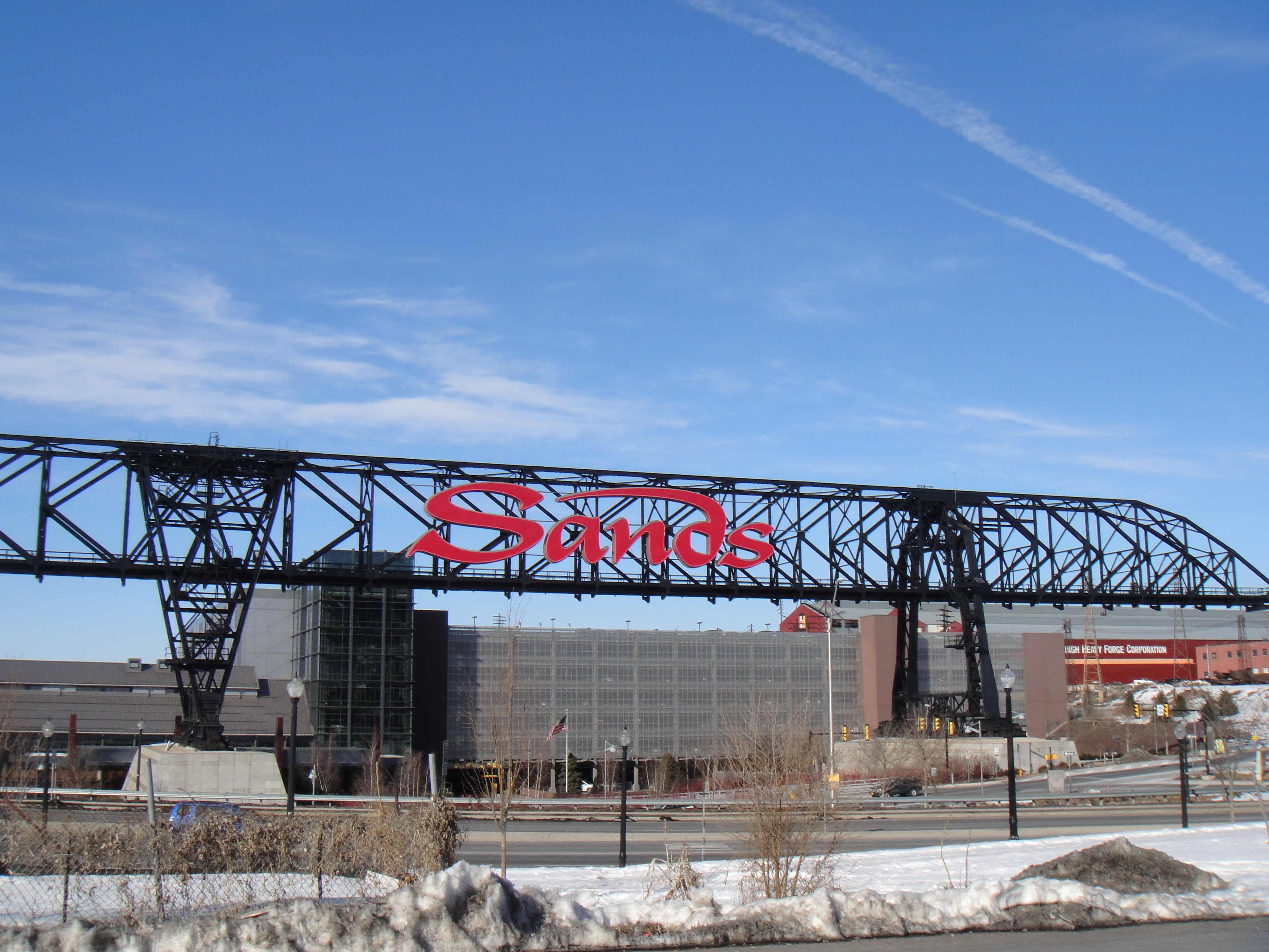 The Sands Casino sign over the old ore crane of Bethlehem Steel.